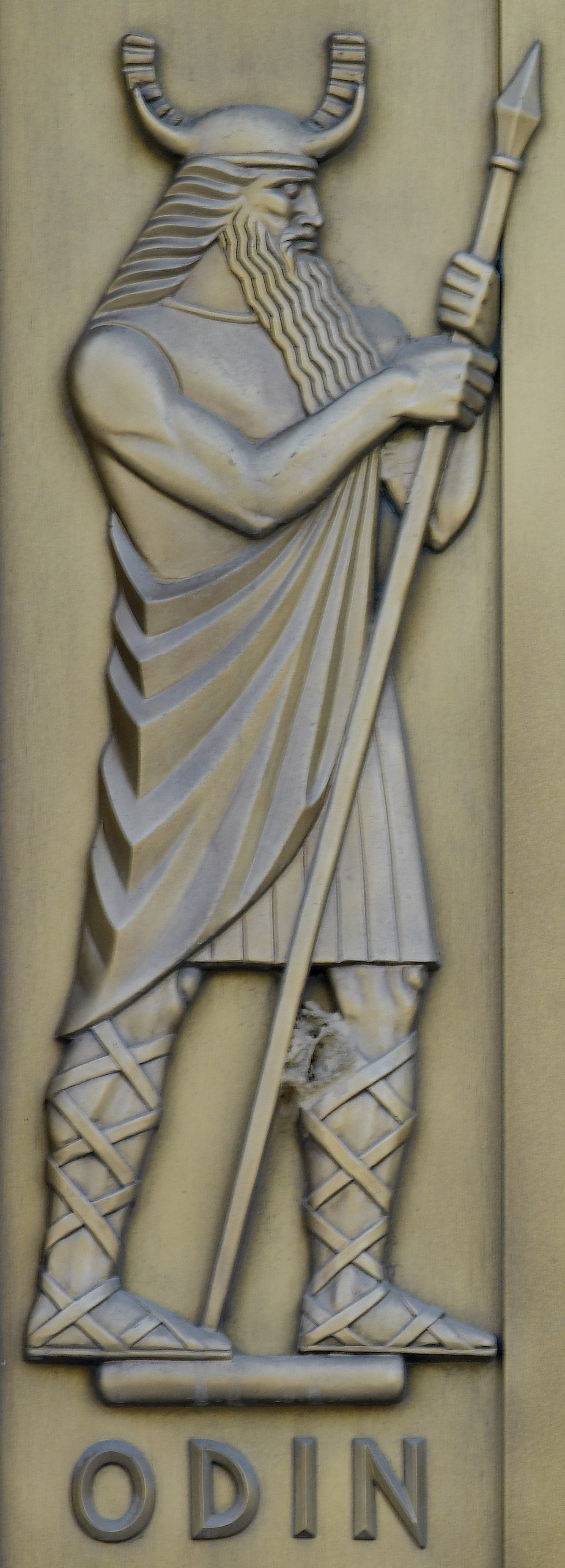 Odin, sculpted bronze figure by Lee Lawrie. Door detail, east entrance, Library of Congress John Adams Building, Washington, D.C.